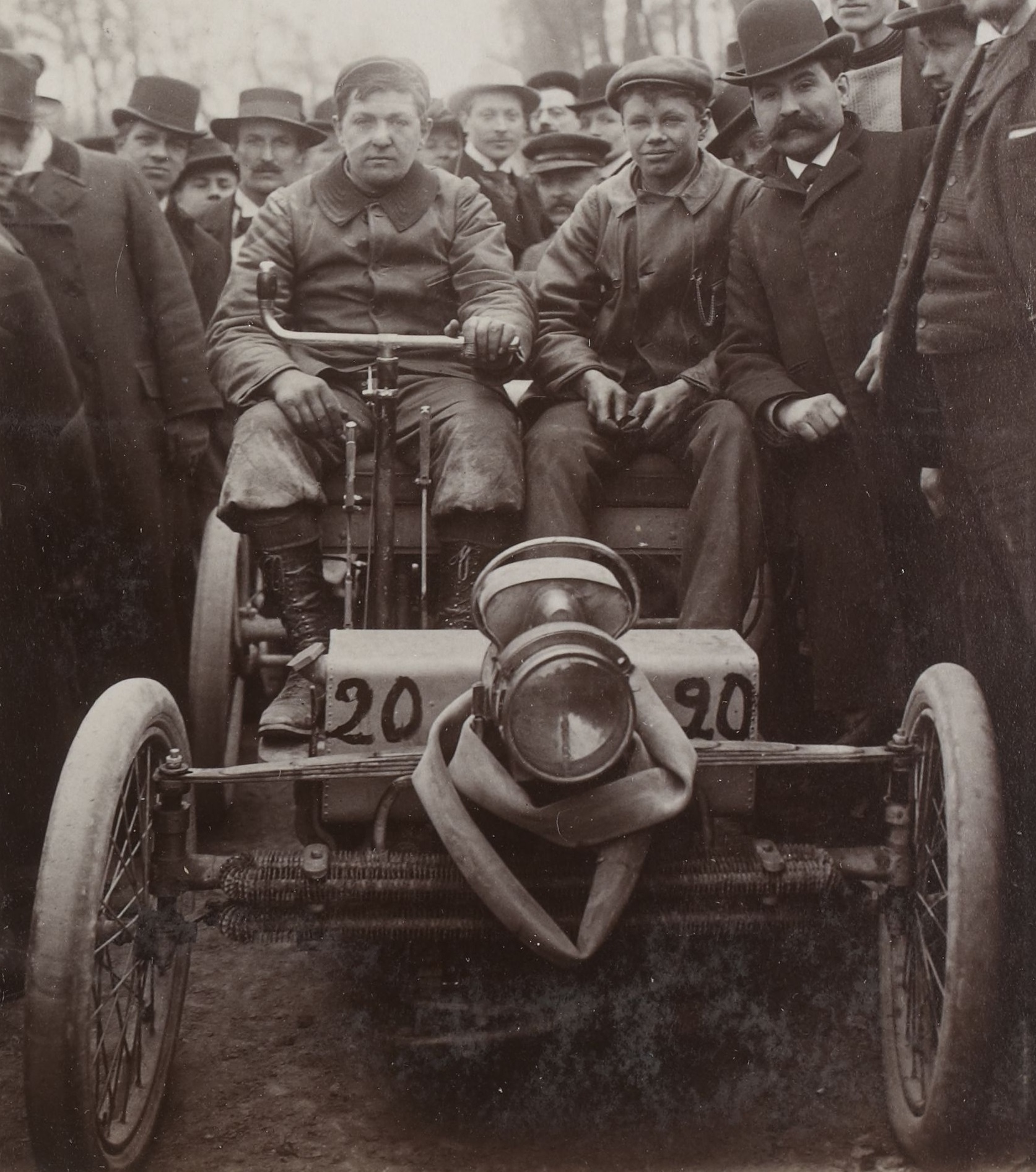 [Collection Jules Beau. Photographie sportive] : T. 13. Année 1900 / Jules Beau : F. 5. [Coupe des voiturettes, victoire en mars 1900]